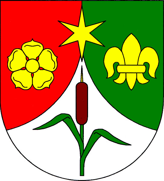 Municipal coat of arms of Třtěnice village, Jičín District, Czech Republic.